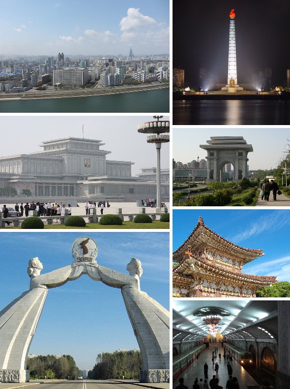 Montage of various Pyongyang images